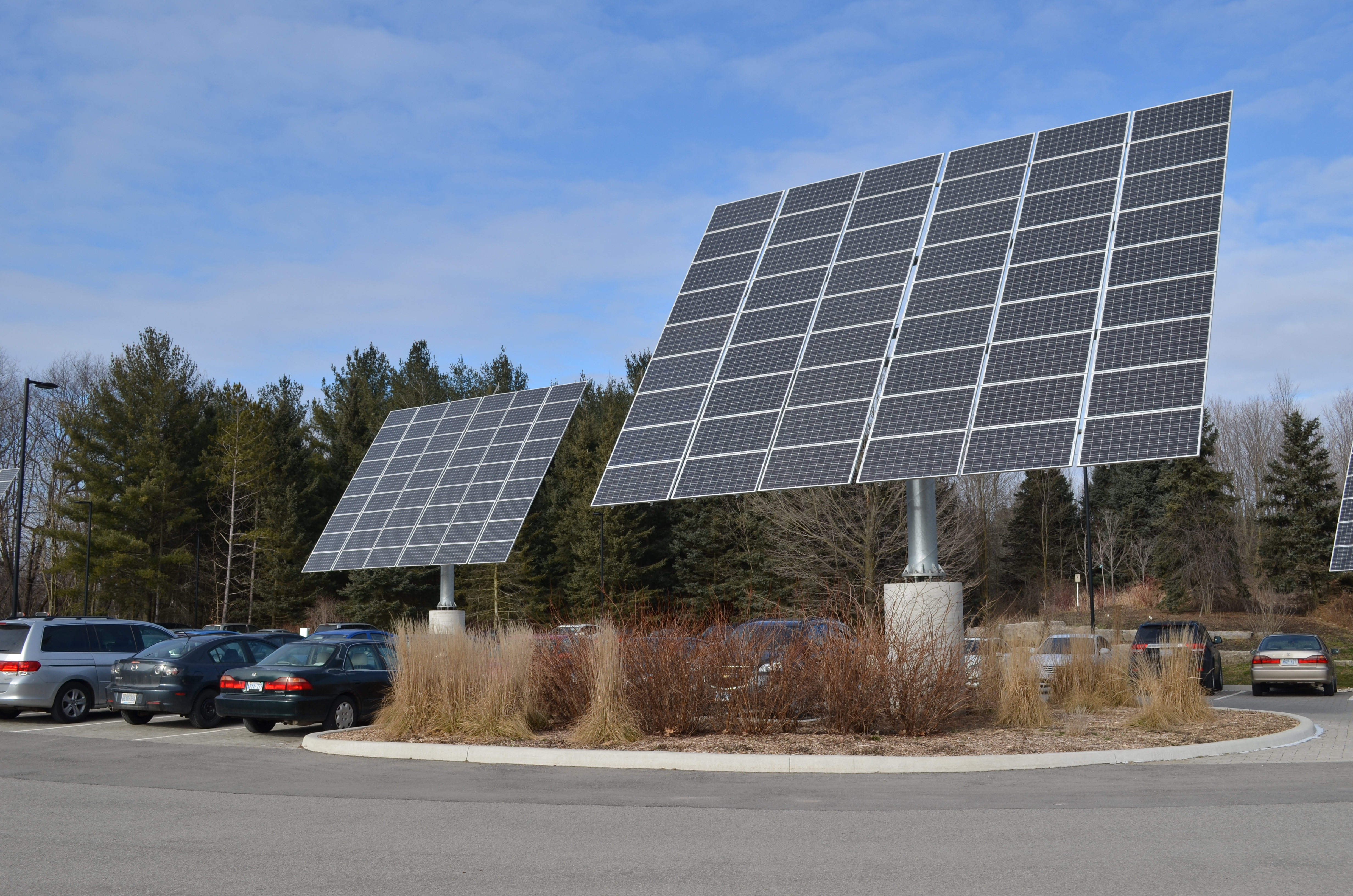 Solar Panels at Earth Rangers Centre